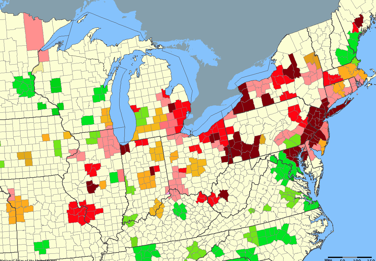 Change in total number of manufacturing jobs in metropolitan areas, 1954/1958-2002. Data from the 1958 Census of Manufactures had to be used for New England, due to changes in counting methods. (All other figures are from 1954.) Boundaries reflect 2002 metropolitan areas; numbers have been adjusted accordingly, and new metropolitan areas left out. The national average over this period was —8.65%. KEY: Green=greater than 60% growth in manufacturing jobs Light green=54.4% growth to 7.5% decrease Yellow=8.7% to 29.1% decrease Pink=31.2% to 43.2% decrease Red=43.6% to 56.2% decrease Maroon=58% to 88.6% decrease Sources: 1958 Census of Manufactures and 2002 Economic Census.